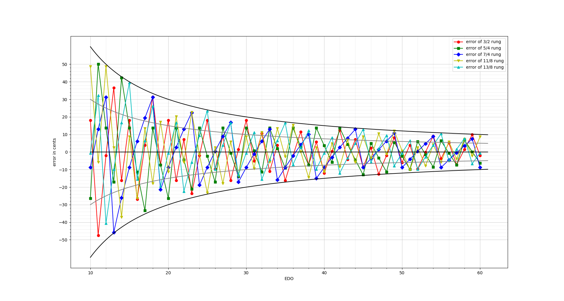 A comparison of EDOs between 10 to 60 on some just intervals (red: 3/2, green: 5/4, blue: 7/4, yellow: 11/8, cyan: 13/8). Each colored graph shows how much error occurs (in cents) when each EDO approximates the corresponding just interval (the black line on the center). Two black curves surrounding the graph on both sides represents the maximum possible error, while the gray ones inside of them indicates the half of it.